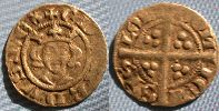 An Edward I farthing from the London mint 1279. Photo and coin from my own collection and part of my website at Subject to disclaimers. Subject to disclaimers.